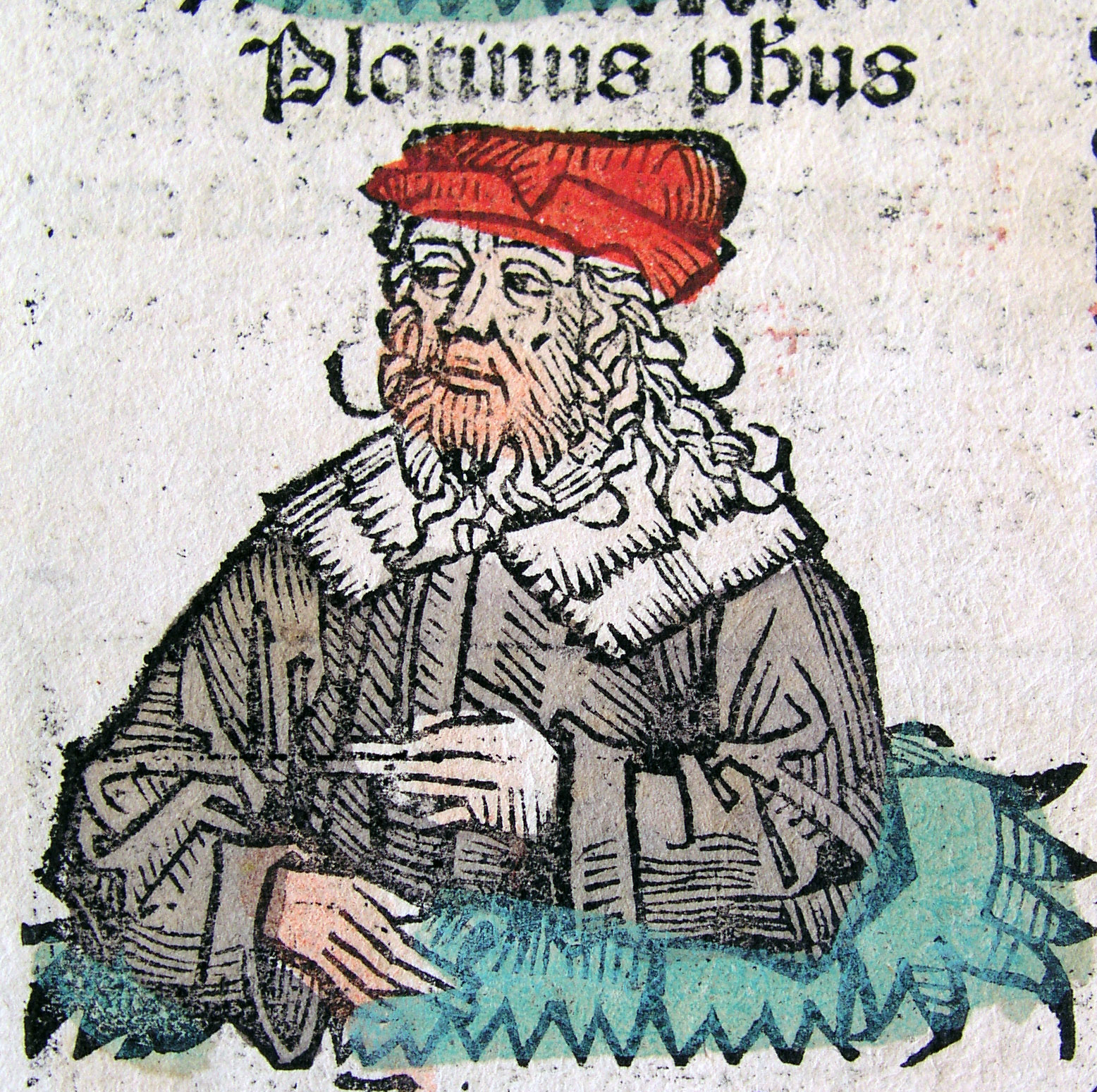 Plotinus